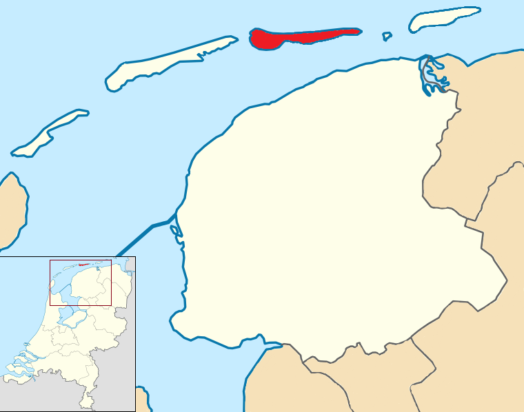 Ameland, island and municipality in Friesland, Netherlands, 2018